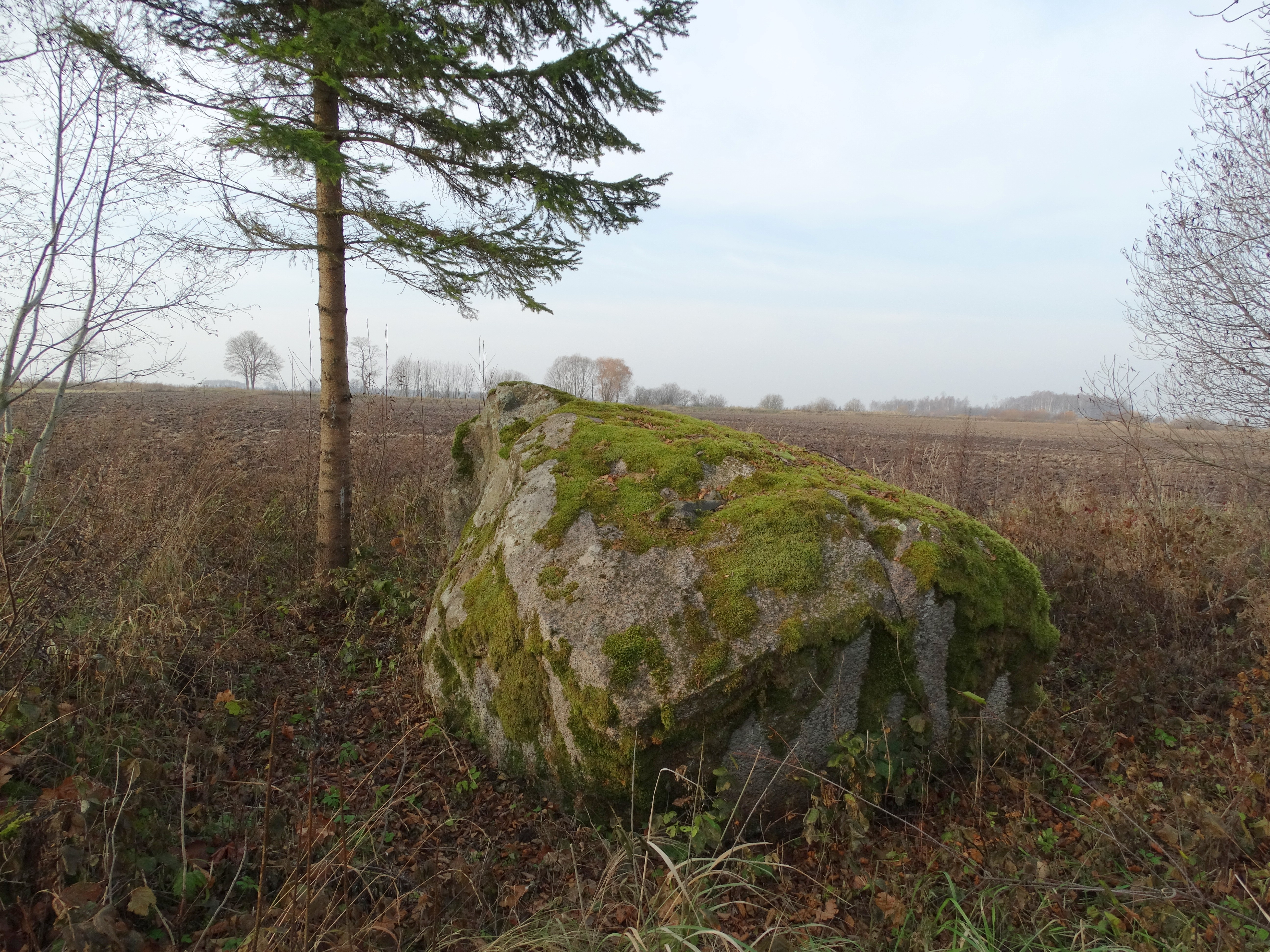 Mythological stone, Trišakiai, Biržai District, Lithuania